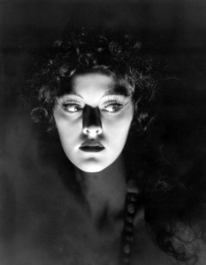 Promotional photograph of Kathleen Burke as Lota the Panther Woman in Island of Lost Souls